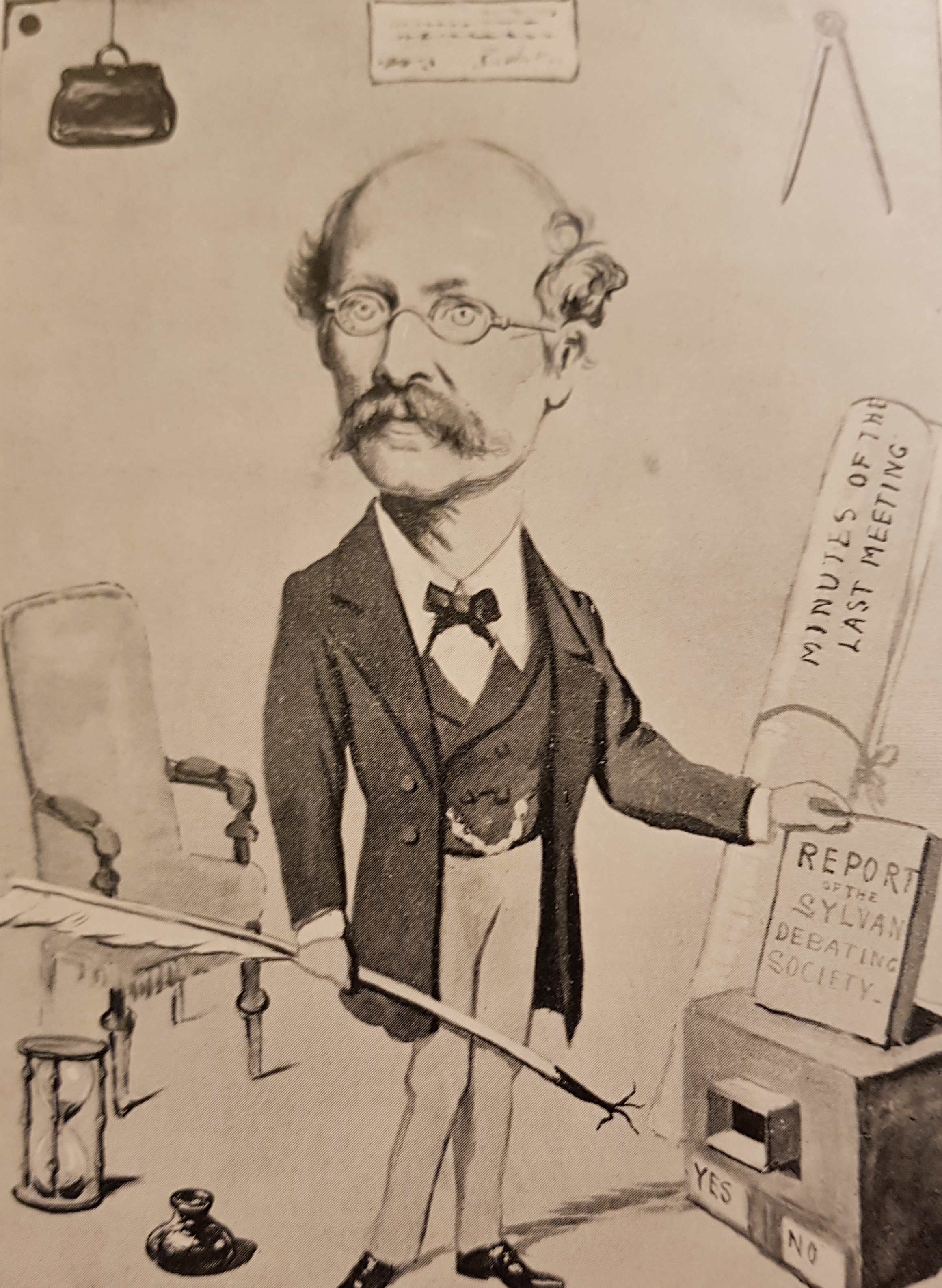 Washington Edmonds Haycock cartoon as president of the Sylvan Debating Club (1902-1903)